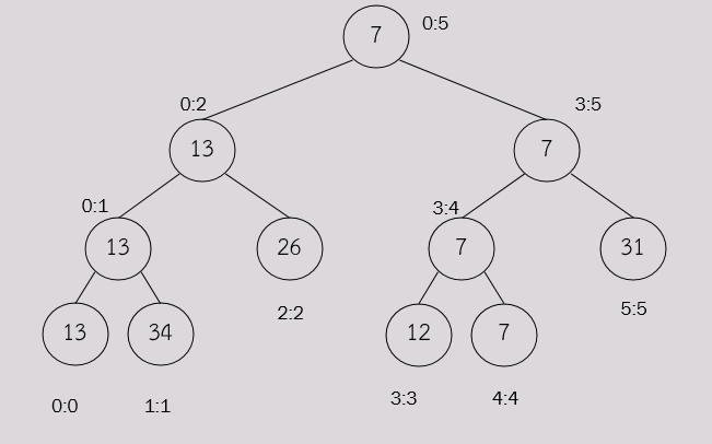 เป็นตัวอย่างของ Segment Tree (ค่าที่น้อยที่สุดในช่วงที่กำหนด)